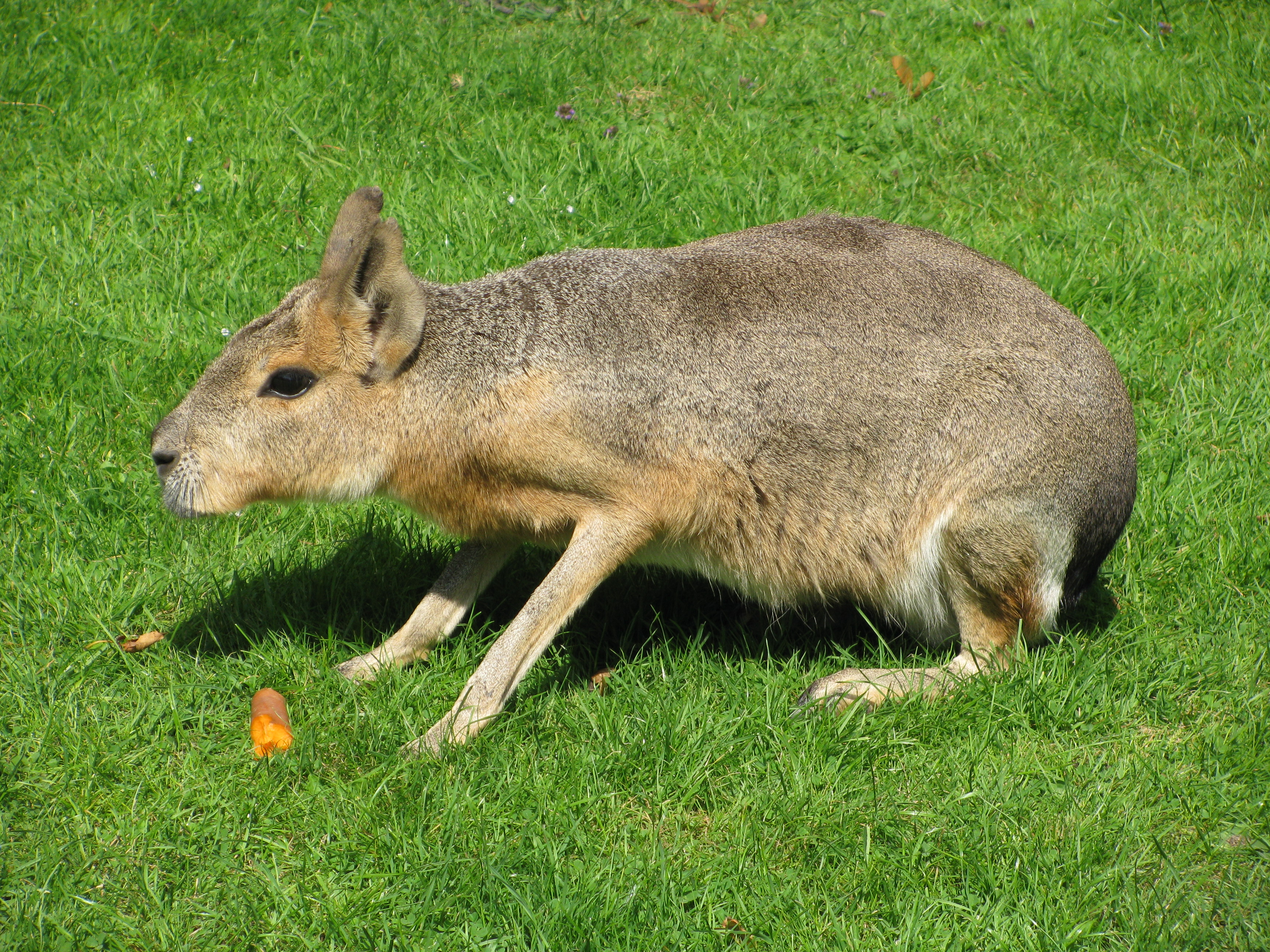 Dolichotis patagonum (Patagonian cavy) portraited in Hamburg, Germany at the Hagenbeck Tierpark.